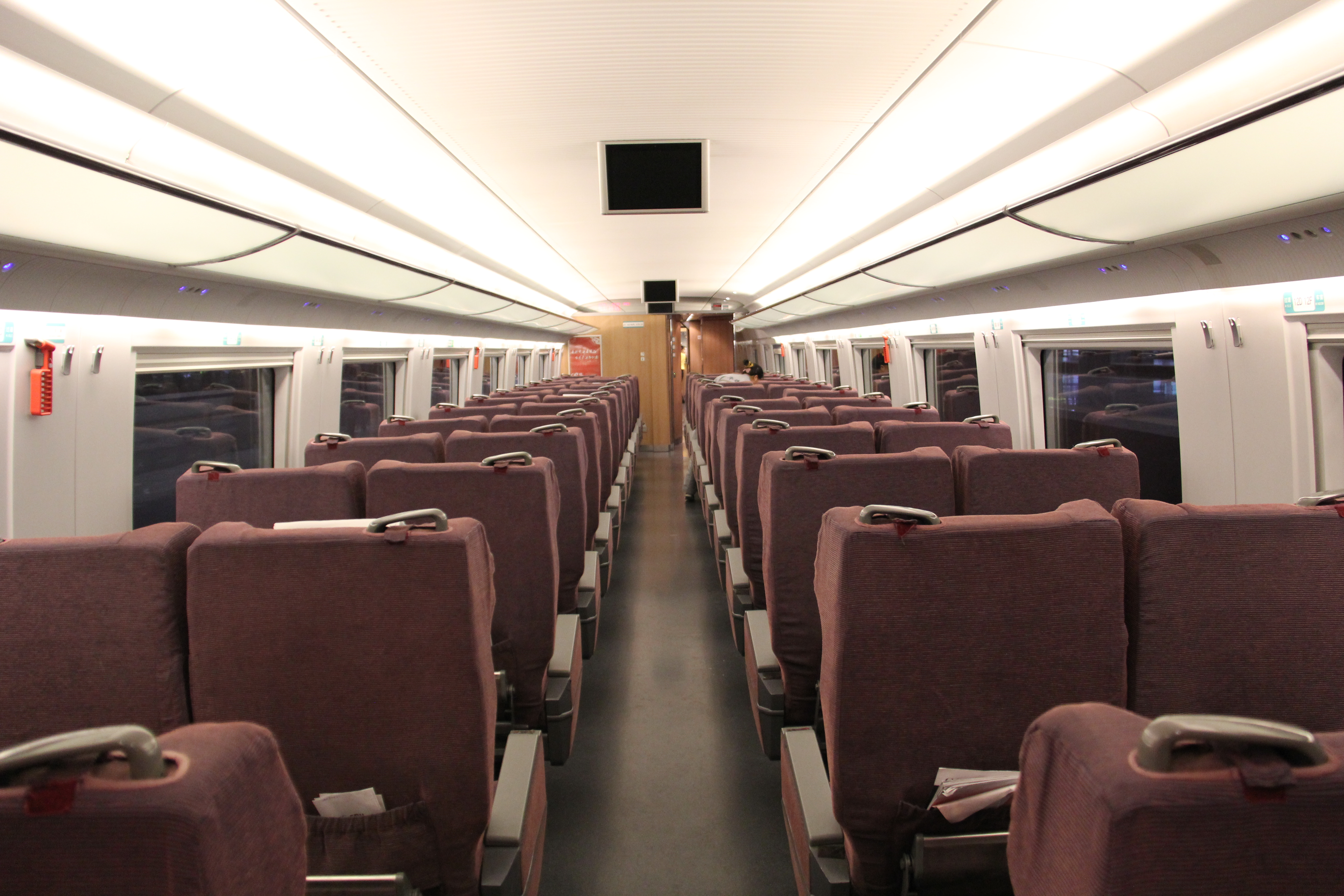 201605 Interior of First Class of CRH3C